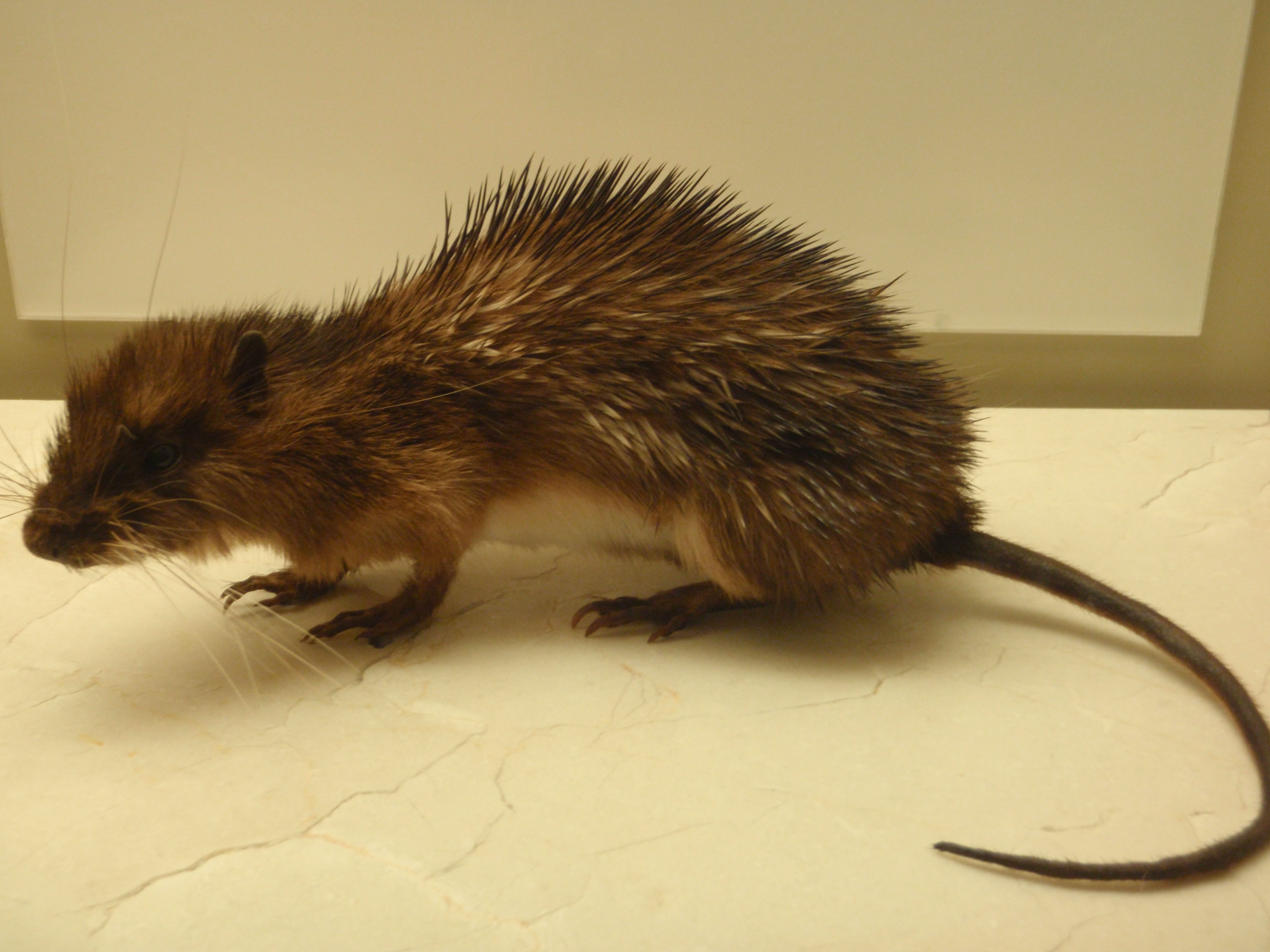 1 Summary A picture of a stuffed Armored Rat taken at the National Museum of Natural History.